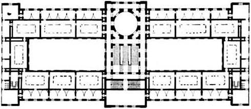 Hofmuseum, Vienna, plan.